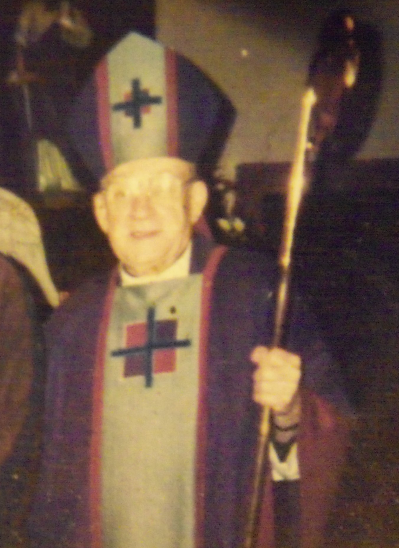 Gilbert Ignatius Sheldon, Roman Catholic Bishop of Steubenville seen in about 1998 at St. Mary of the Immaculate Conception Church (Morges, Ohio).